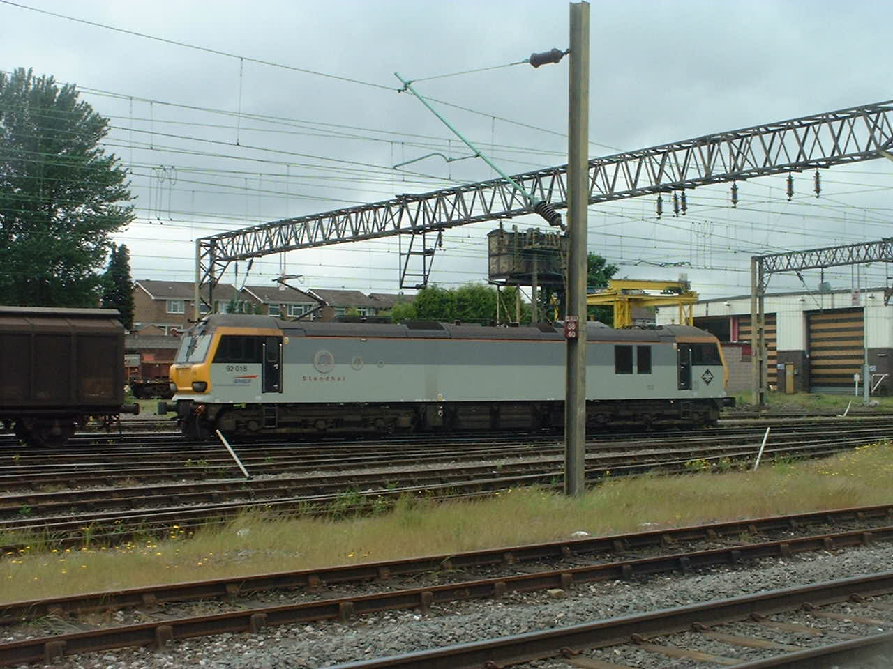 British Rail Class 92 92018 at Bescot TMD